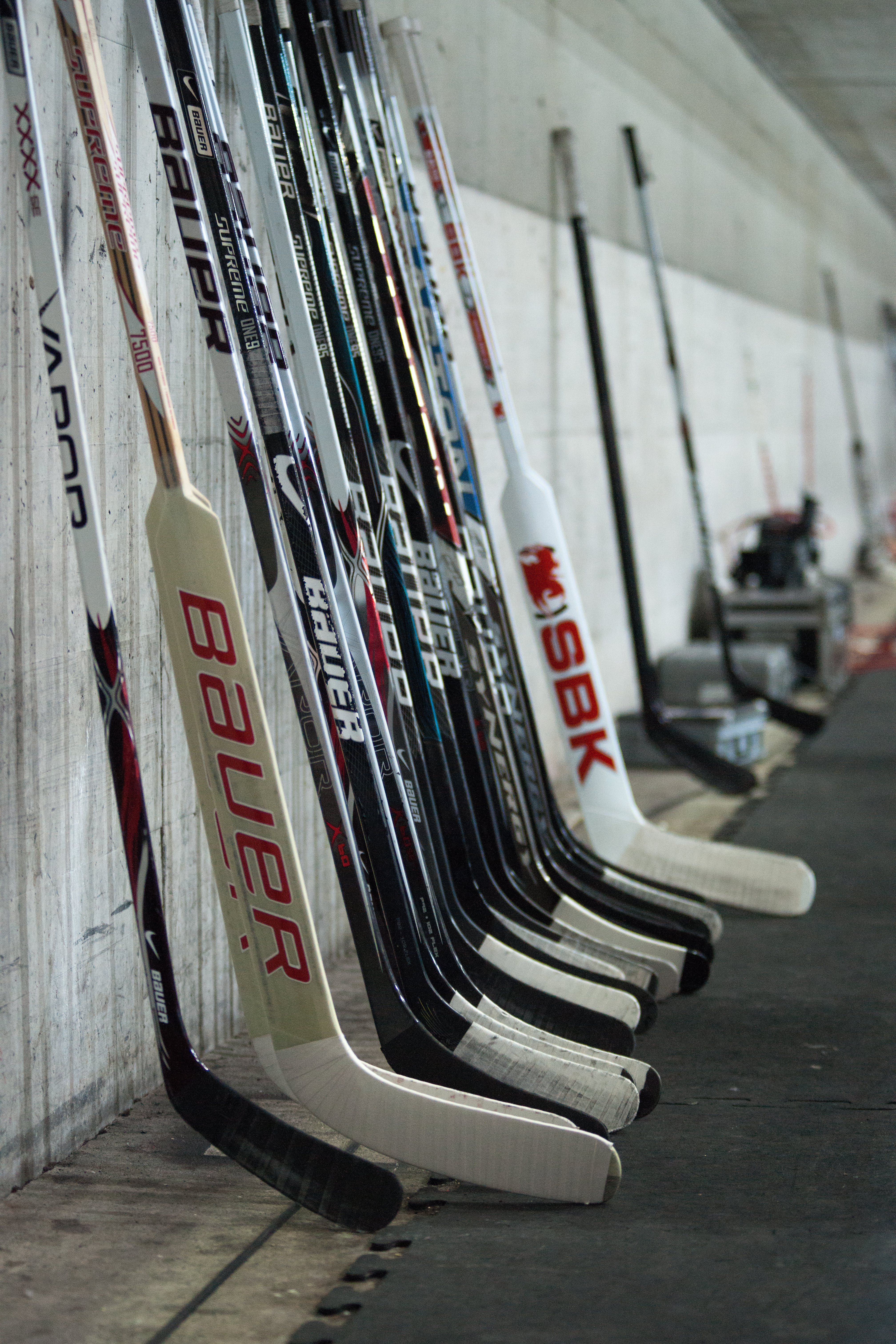 The making of this document was supported by Wikimedia CH. (Submit your project!) For all the files concerned, please see the category Supported by Wikimedia CH.